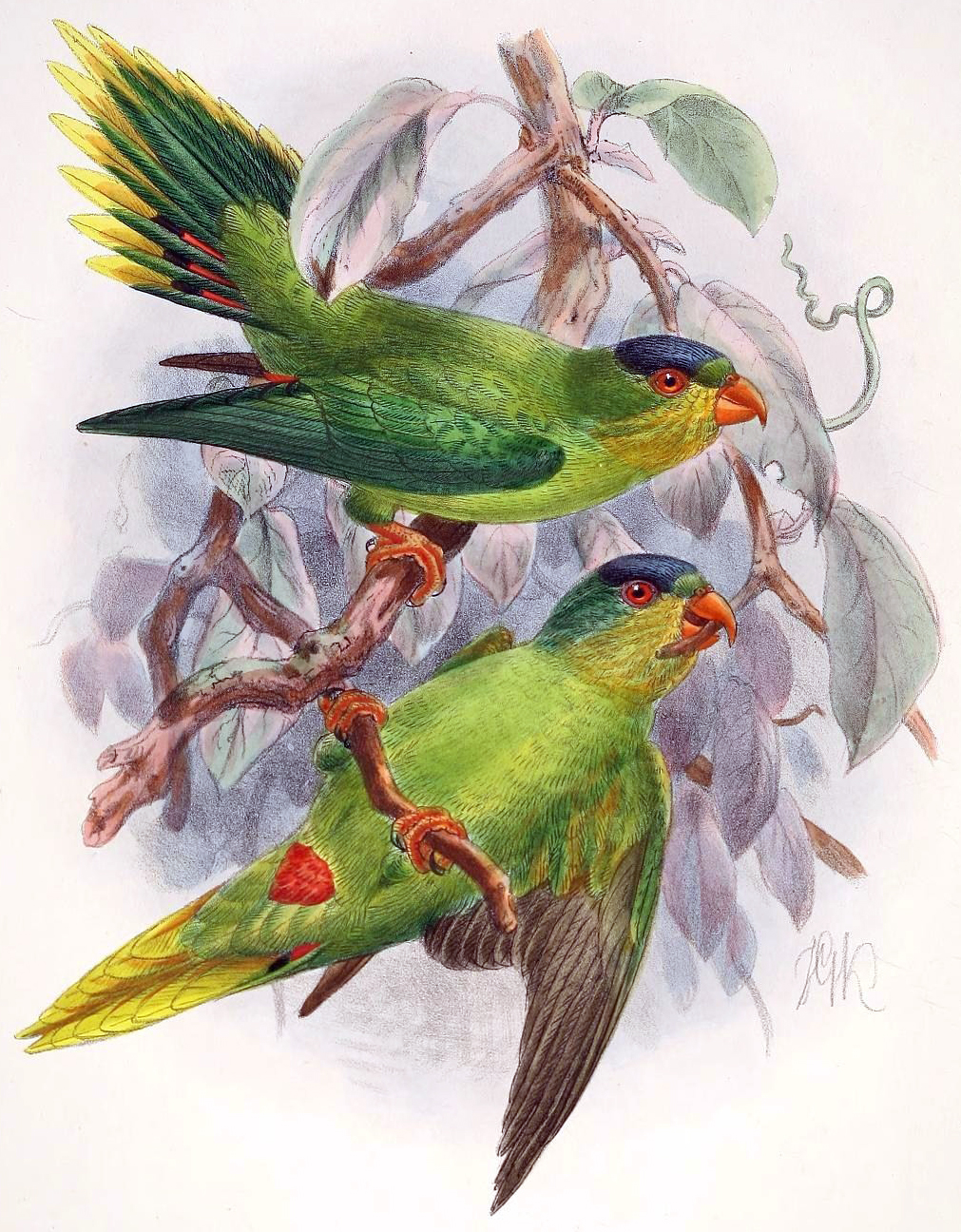 The Diademed Lory (Hypocharmosyna (Charmosyna) diademata now Charmosyna diadema) Chromolithograph. Plate LIV from A monograph of the lories, or brush-tongued parrots, composing the family Loriidae. By St. George Jackson Mivart (1827–1900). Artwork by John Gerard Keulemans (1842-1912). This was published by R. H. Porter (London) in 1896.